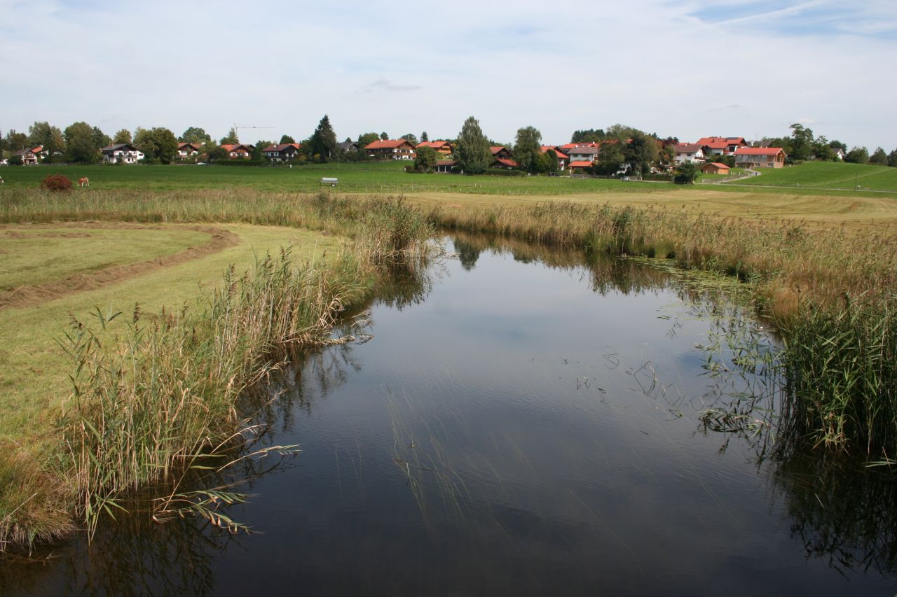 The River Ach looking north, between the Staffelsee and Uffing.